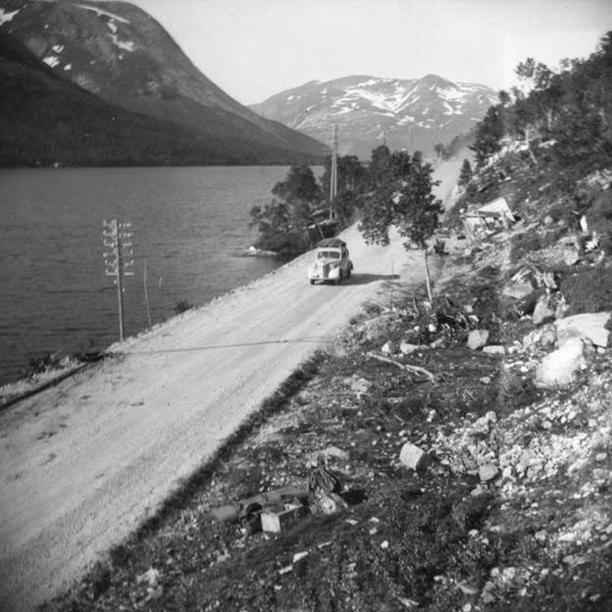 Highway 50 (E6) through Eiaura in Sørfold in 1949, Nordland, Norway.